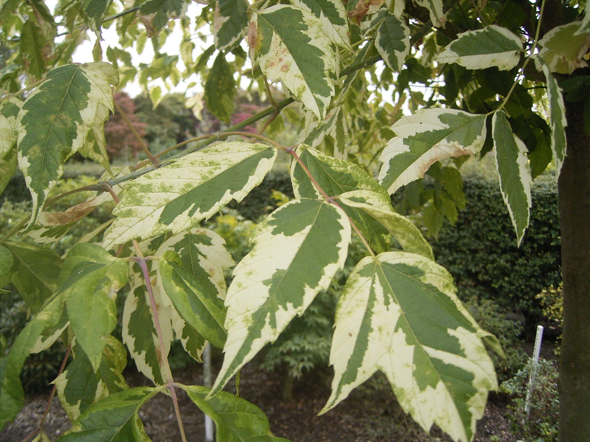 This photo shows Acer negundo 'Aureomarginatum'